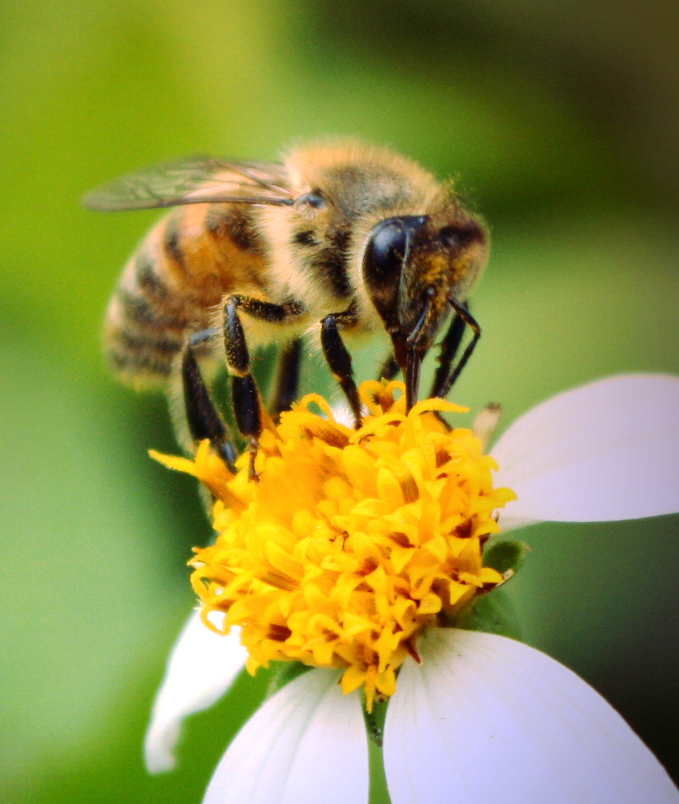 Image of a Honey Bee